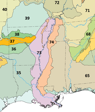 Map showing the Mississippi Alluvial Plain (73) and Mississippi Valley Loess Plains (74) ecoregions as defined by USEPA, with adjacent Level III ecoregions